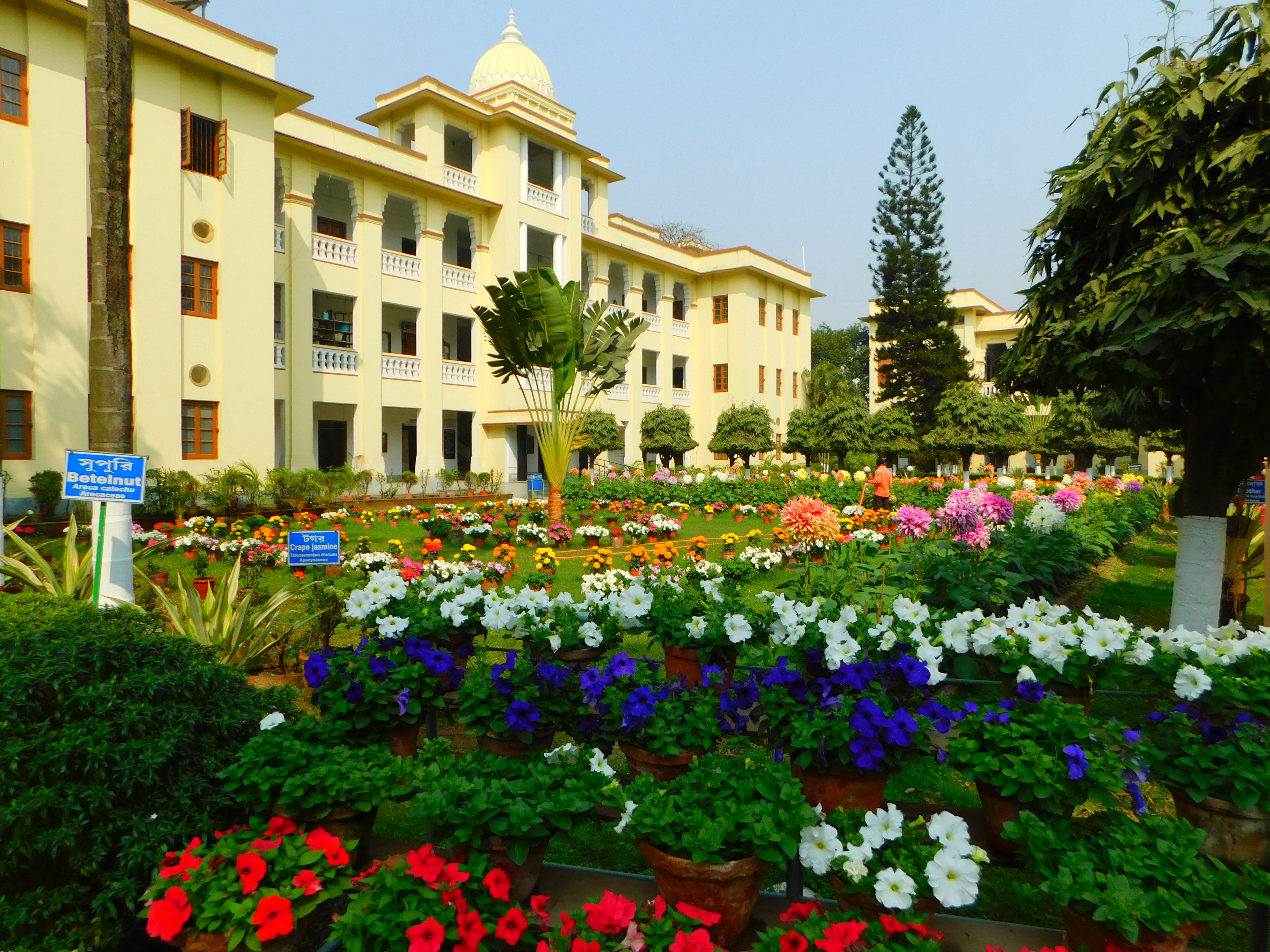 Ramakrishna Mission Vidyamandira campus, Belur, Howrah, India.